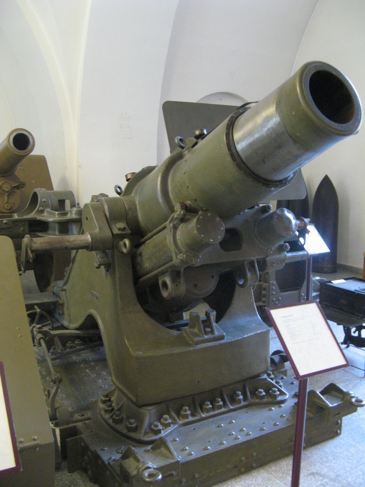 Skoda 24 cm mortar M 1898 located at the Heeresgeschichtliches Museum